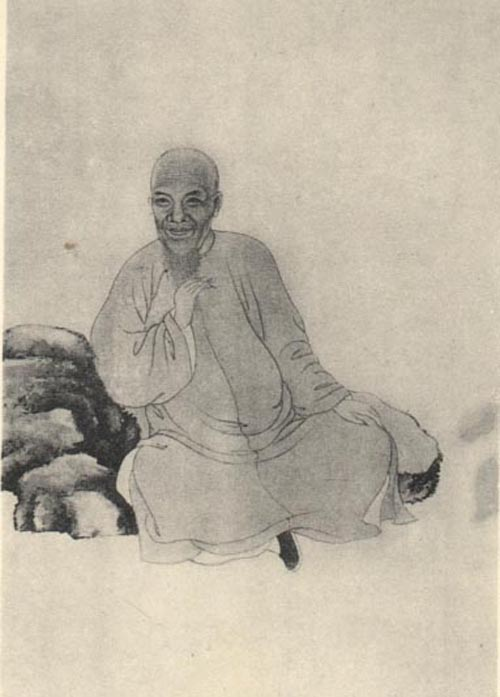 WANG Chang, politician and scholar of the Qing Dynasty.